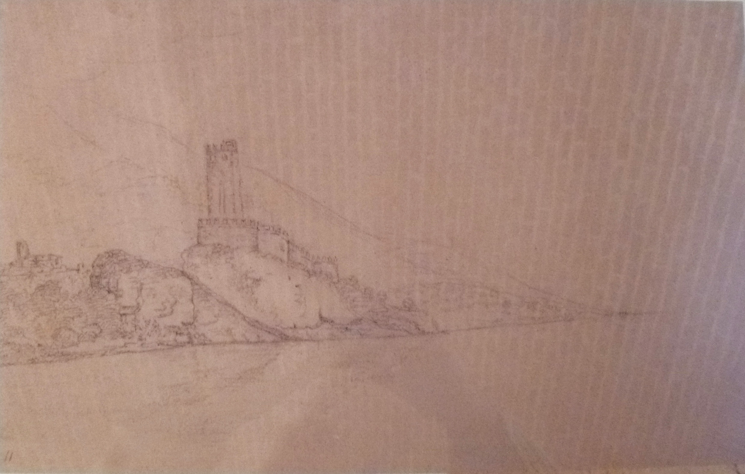 Drawing of the castle of Malcesine (1786) by J.W. Goethe; Malcesine, Lake Garda, Italy